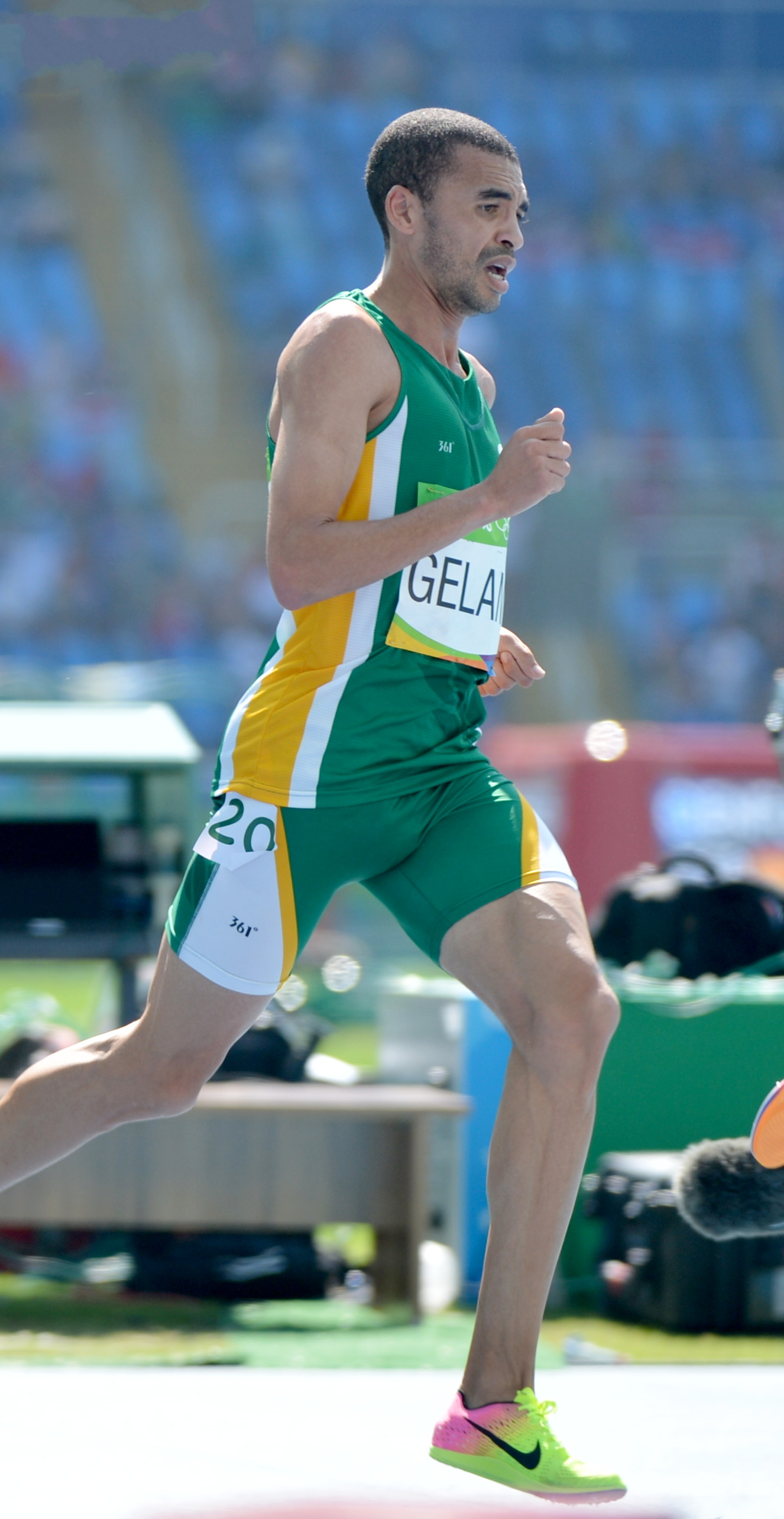 Elroy Gelant in the second heat of men's 5,000-meter run, Wednesday, Aug. 17 at the Rio Olympic Games in Rio de Janeiro. U.S. Army photo by Tim Hipps, IMCOM Public Affairs #SoldierOlympians #ArmyOlympians #ArmyTeam #GoArmy #TeamUSA #RoadToRio #Olympics #ArmyStrong